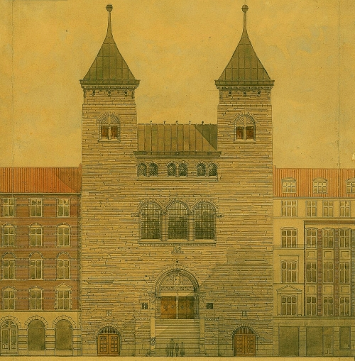 Detail of Martin Nyrop's rendering for Eliaskirken in Vesterbro, Copenahgen, Denmark